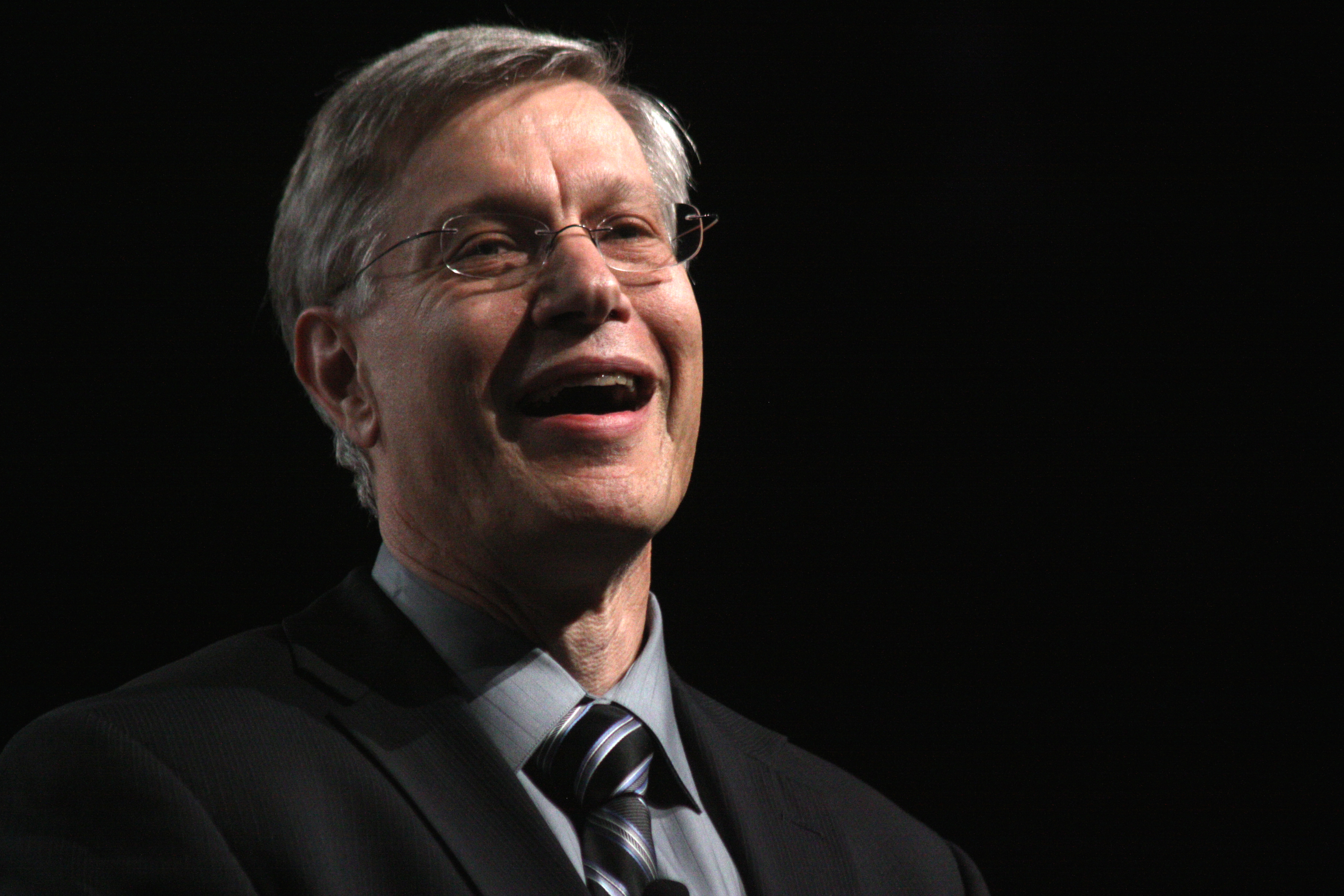 Yaron Brook of the Ayn Rand Center for Individual Rights speaking at the Tea Party Patriots American Policy Summit in Phoenix, Arizona.